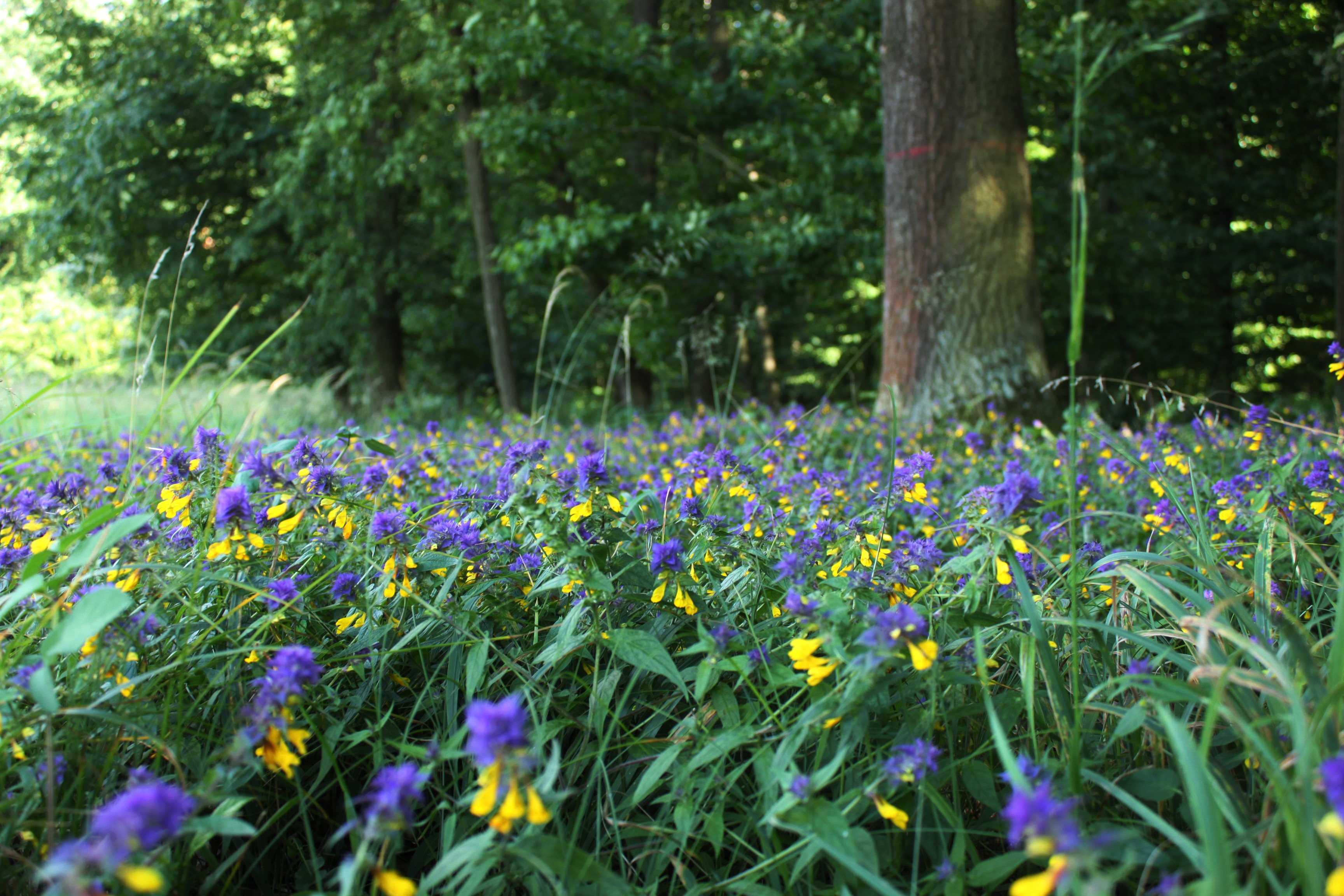 Natural Monument Boršov u Litětin near Libišany in Pardubice District. Protected locality of Dianthus superbus and Gentiana pneumonanthe.